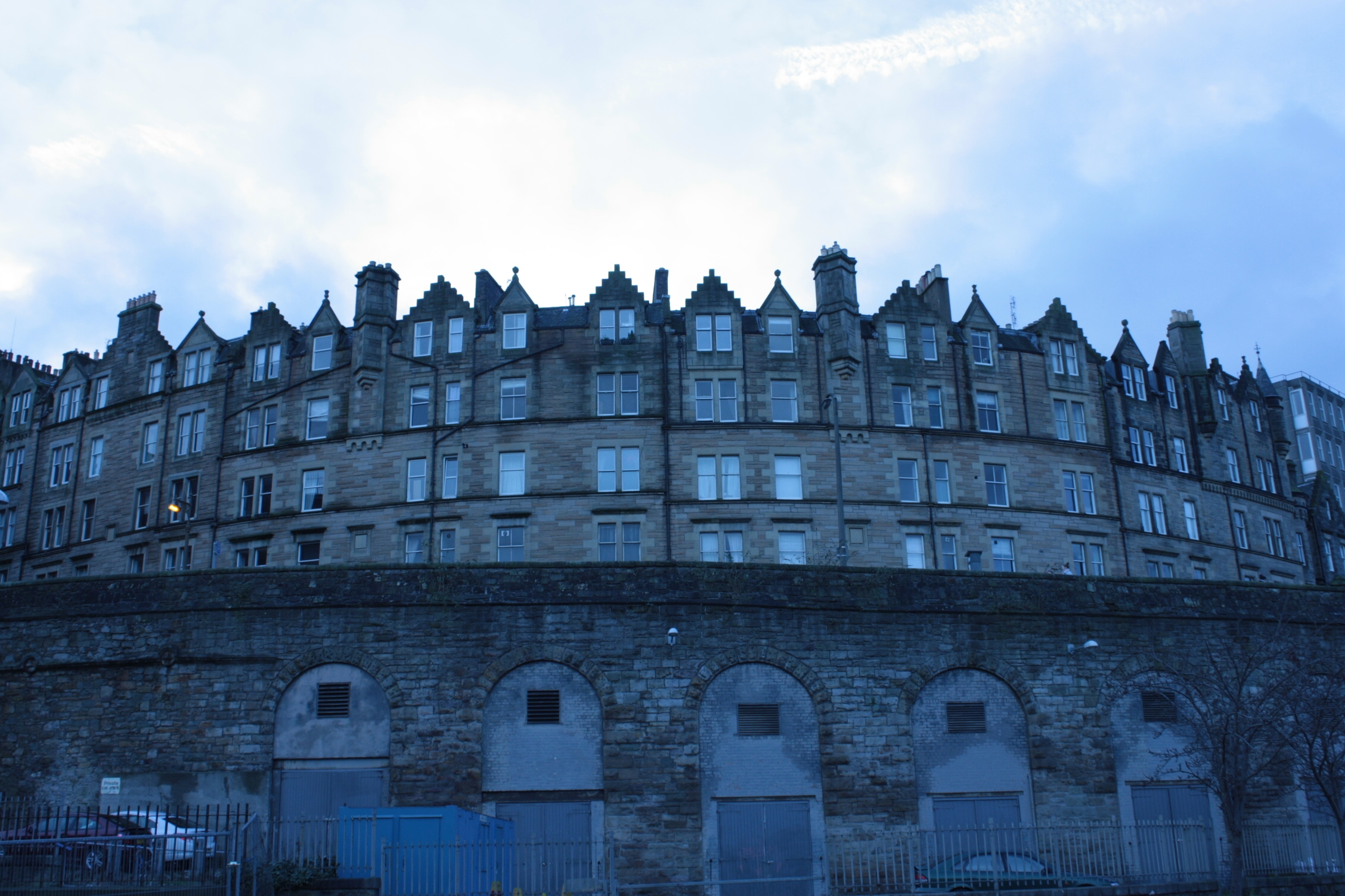 Jeffrey Street as seen from the east end of East Market Street Edinburgh including support arches in road